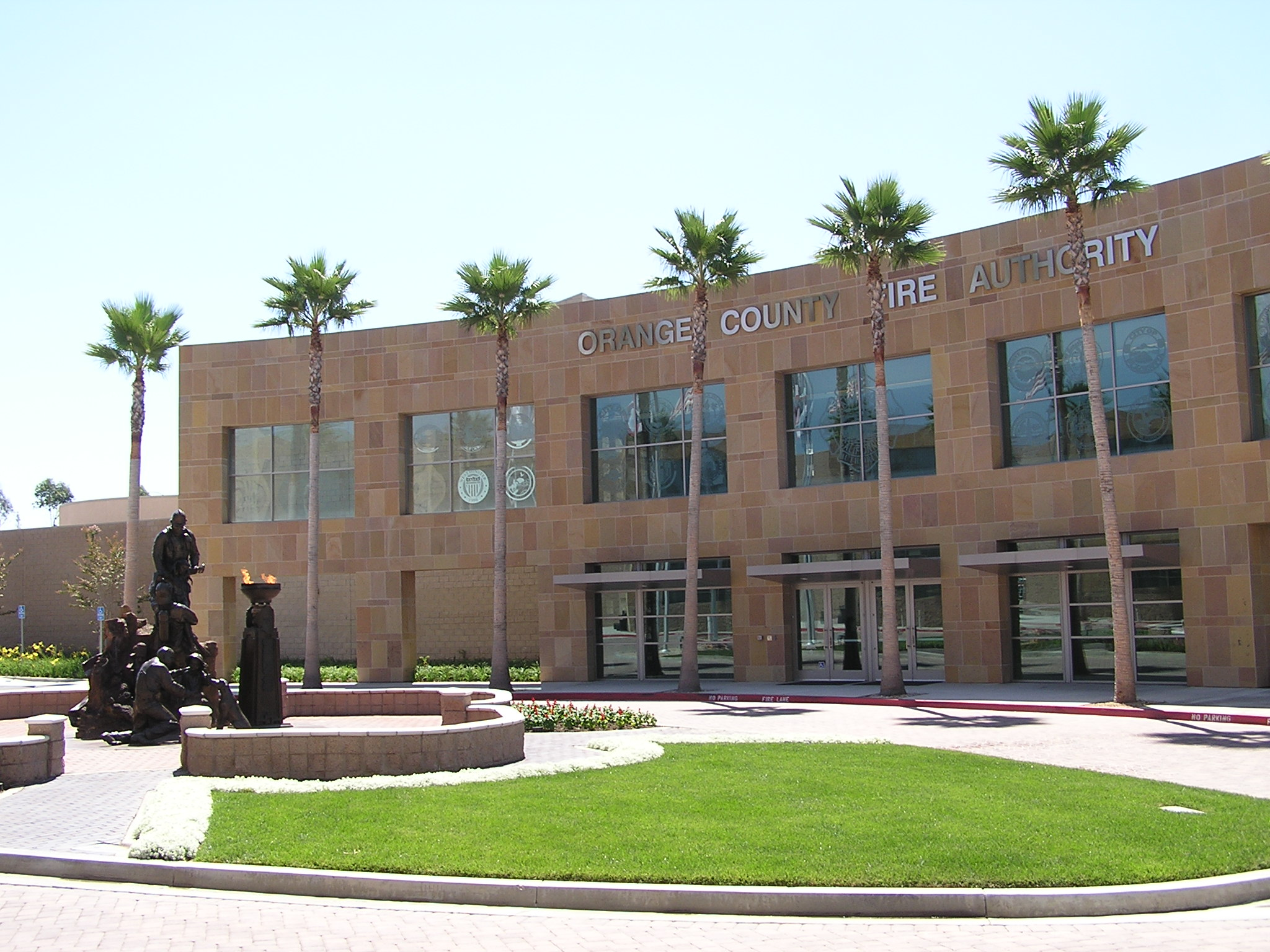 Headquarters of the Orange County Fire Authority in Irvine, California